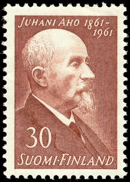 Postage stamp depicting Finnish writer Juhani Aho